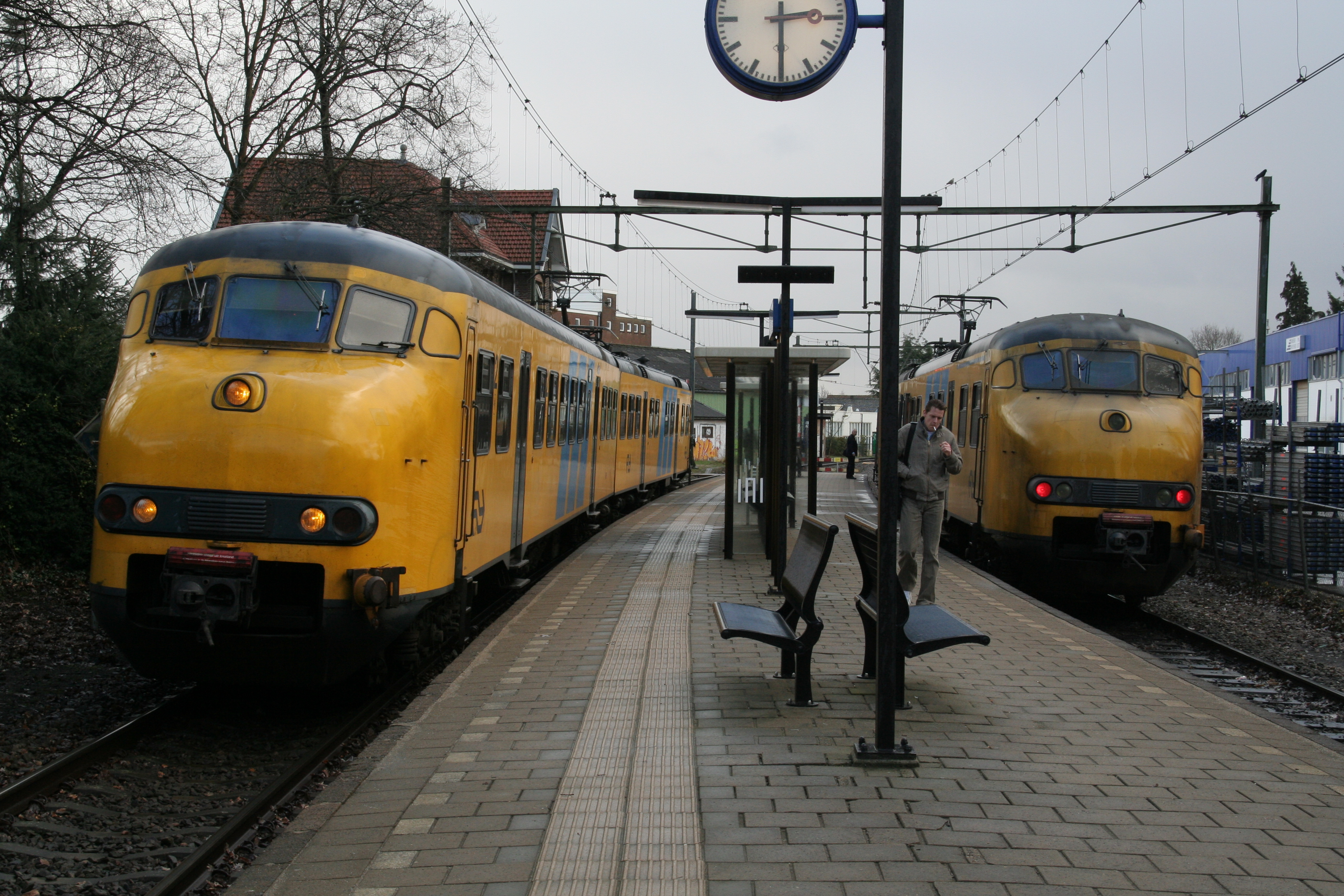 Station Soest